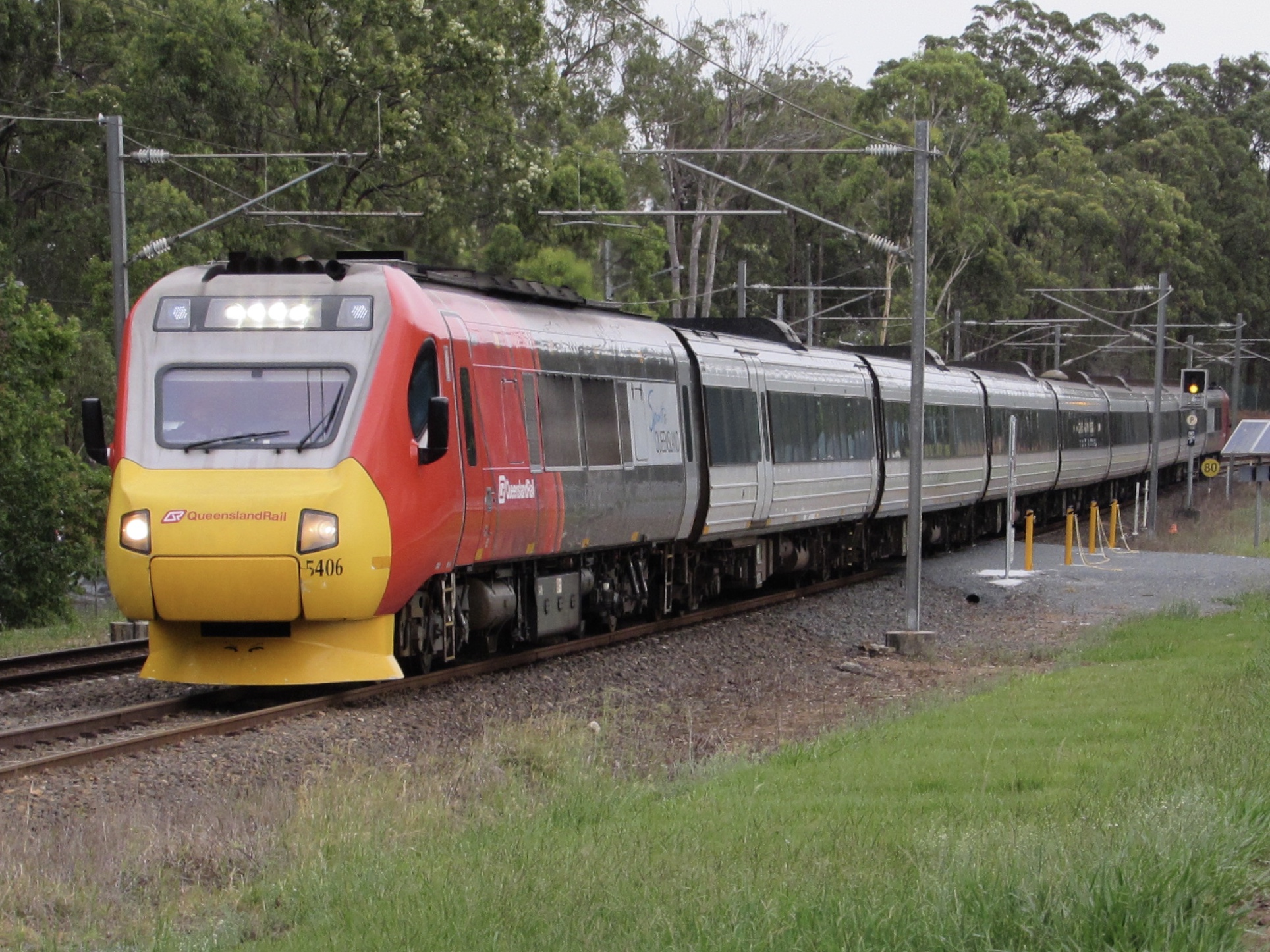 The Spirit Of Queensland (Diesel Tilt Train) train at Dakabin Station in 2020